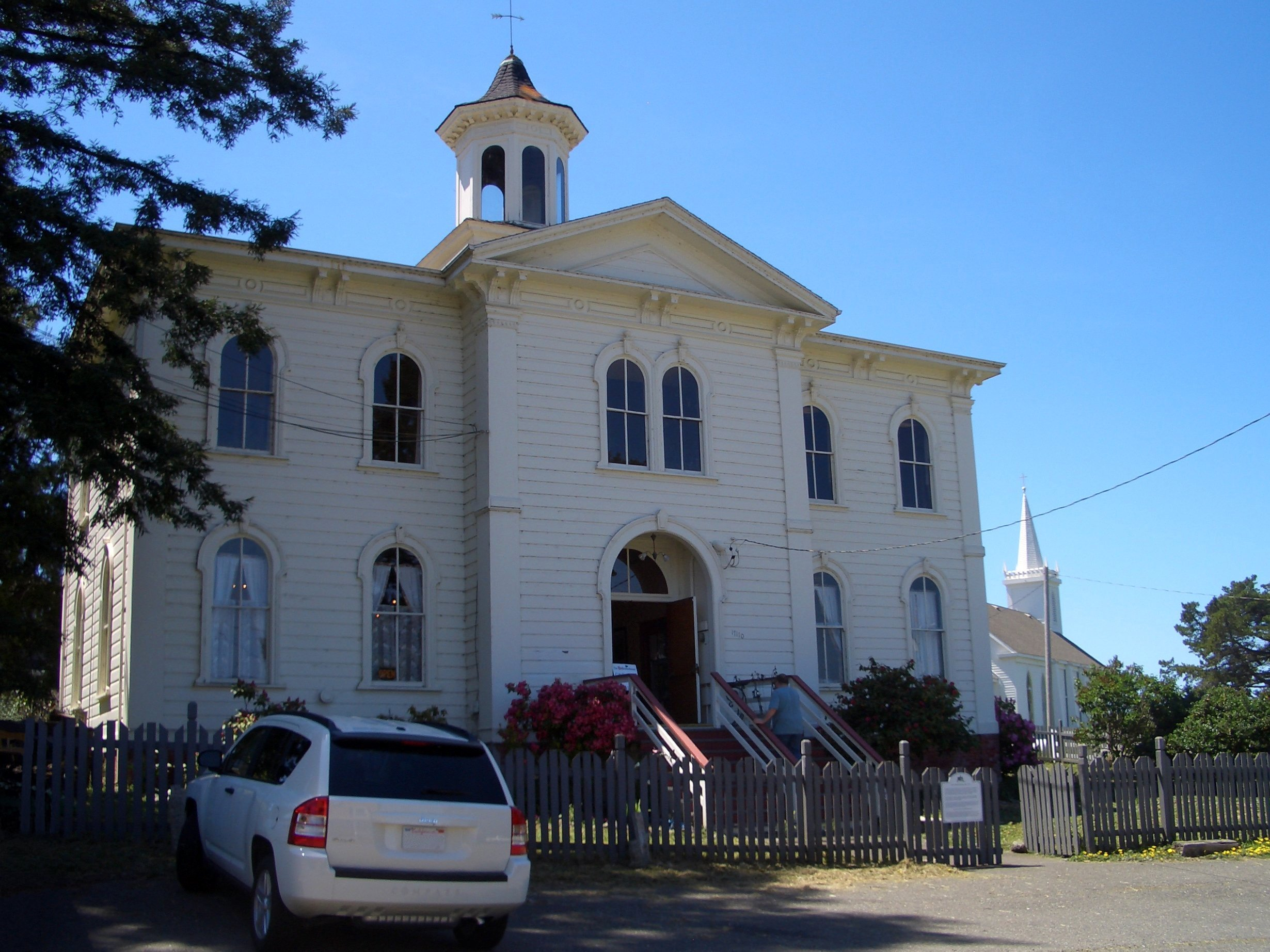 Potter Schoolhouse in Bodega (California), used in 1963 film 'The Birds' (Alfred Hitchcock)